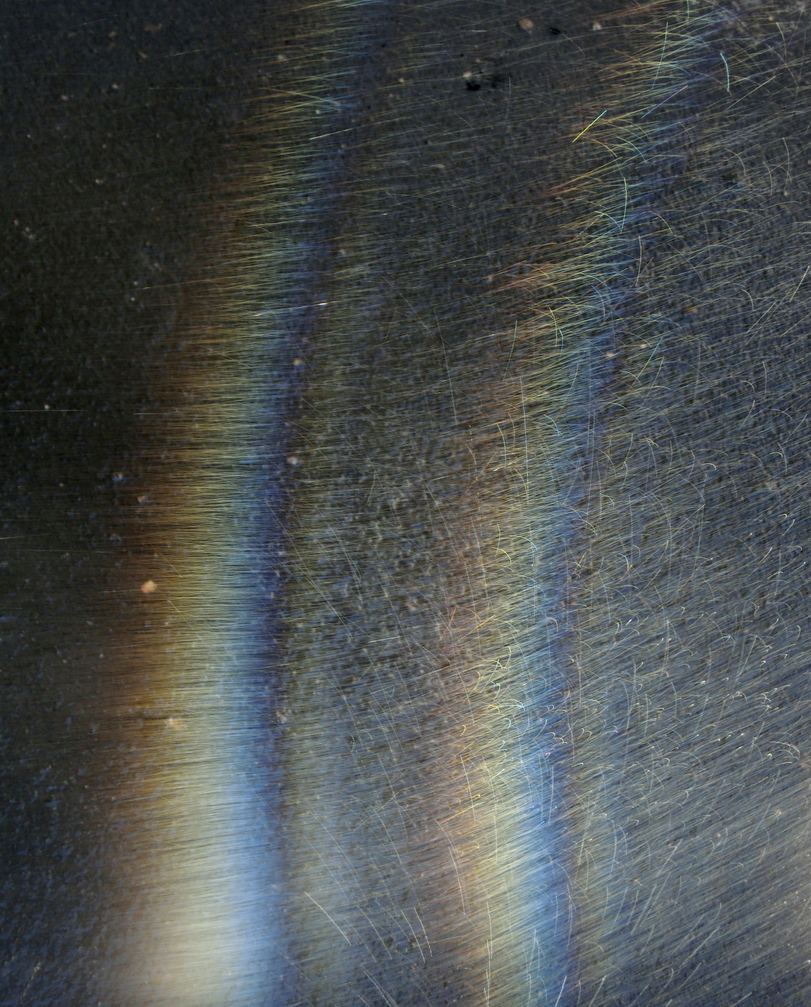 The first order rainbows obtained in a sunlight by sprinkling water (the rainbow with larger radius) and a sugar solution (the rainbow with smaller radius).